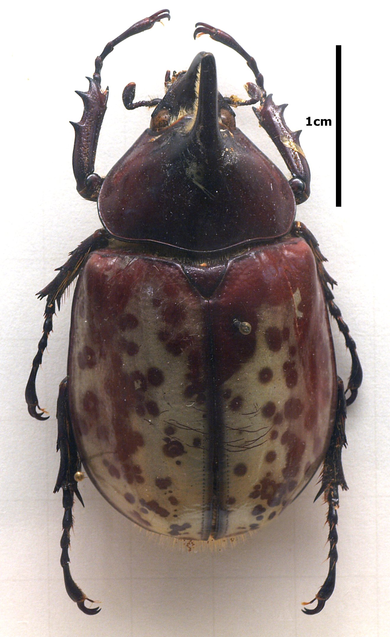 Dynastes hyllus (Scarabaeidae), mounted specimen from Mexico.